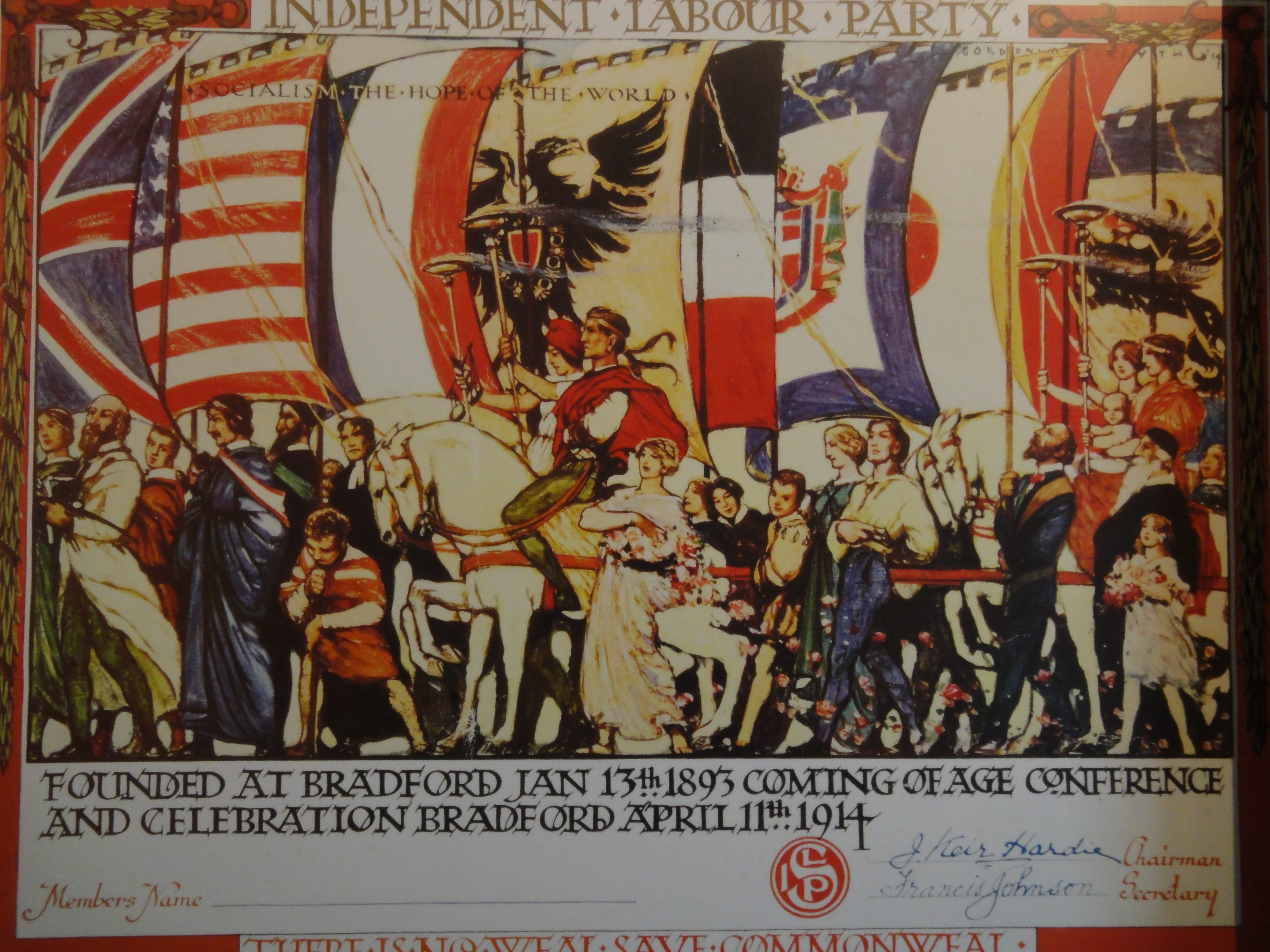 Poster of the Coming-of-Age Conference of the ILP 1914, taken in the exhibition of the People's History Museum, Manchester